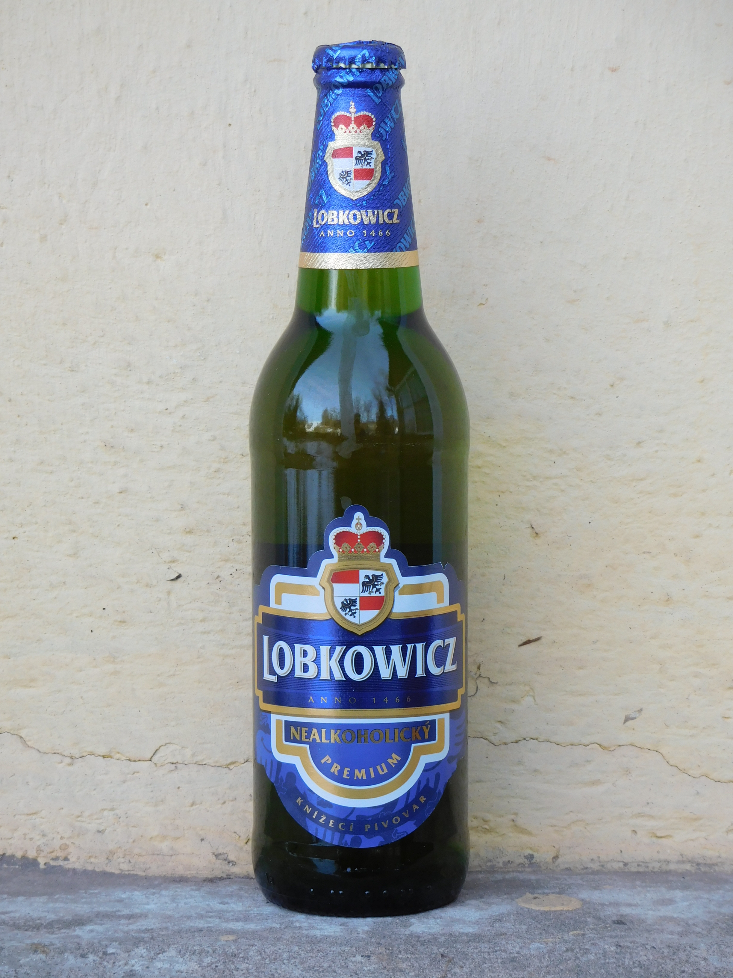 Lobkowicz non-alcoholic beer